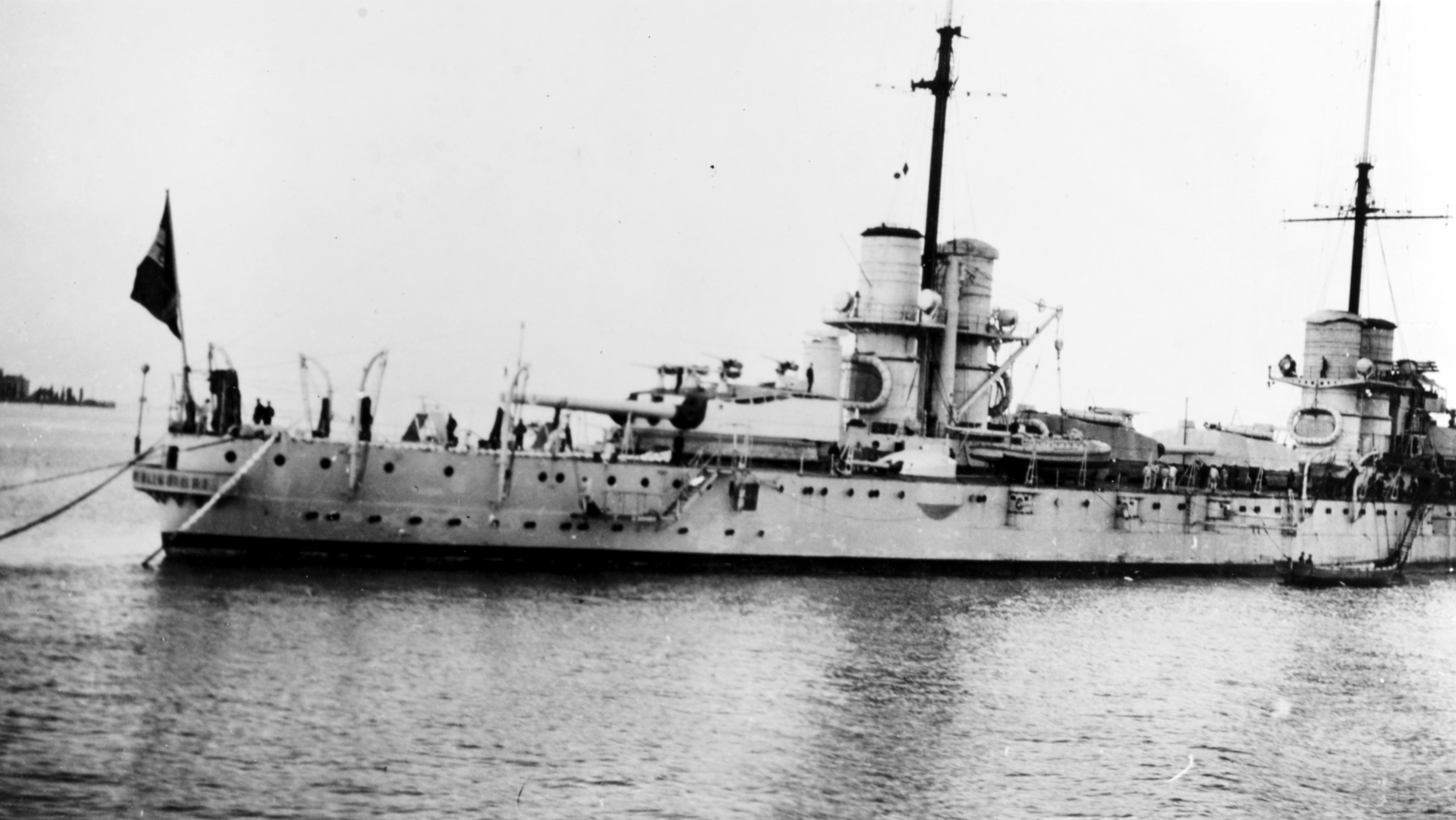 Title: DANTE ALIGHIERI (Italian battleship, 1910-1928) Caption: Photographed at Venice after the end of World War I and probably before May 1919, when the ship deployed to Fiume across the Adriatic.